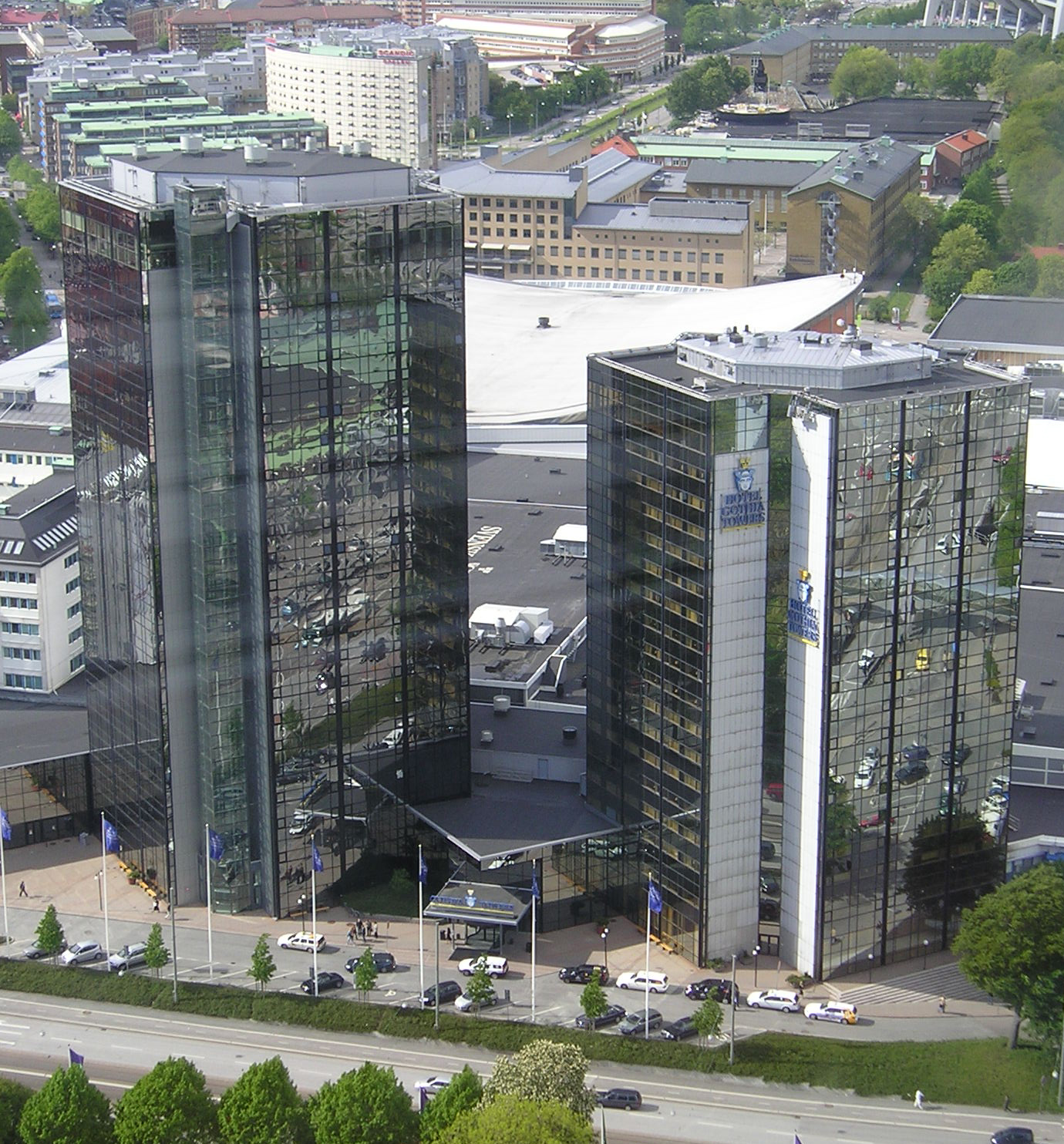 Hotel Gothia Towers, as seen from the Liseberg tower.